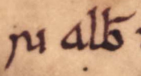 An excerpt from folio 33v of Oxford Bodleian Library MS Rawlinson B 489 (the Annals of Ulster). The excerpt concerns Amlaíb mac Illuilb, King of Alba (died 977).